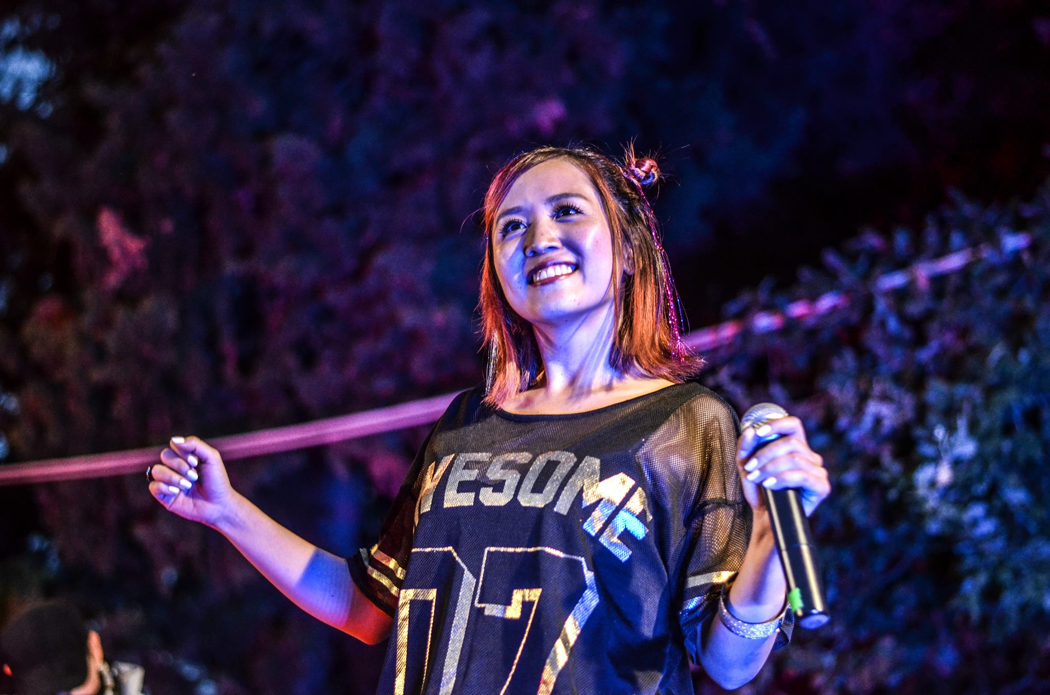 川崎恵理子が2018年にイタリアのコリックコミックスのライブの様子